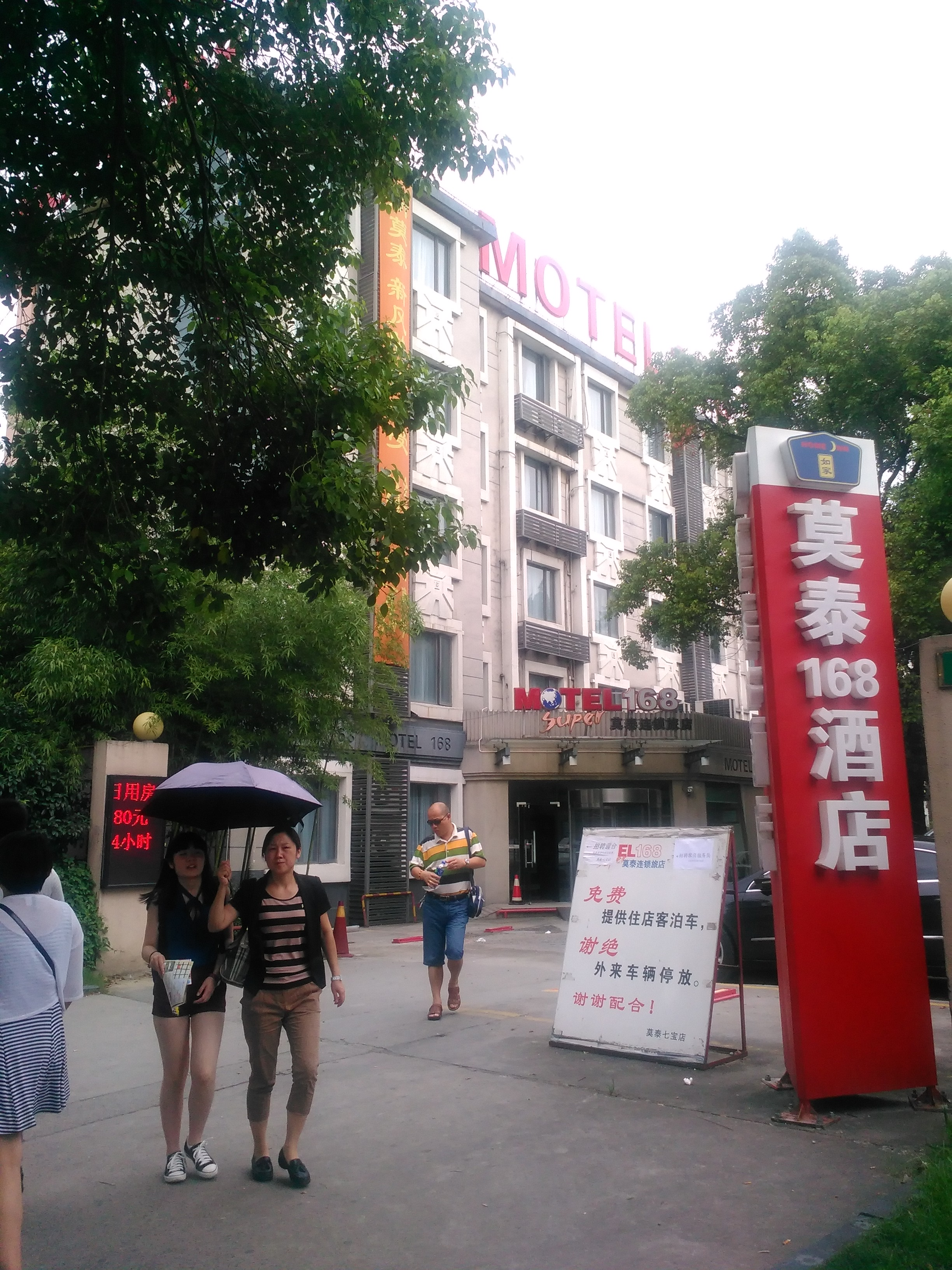 Motel 168 in Shanghai, near Qibao